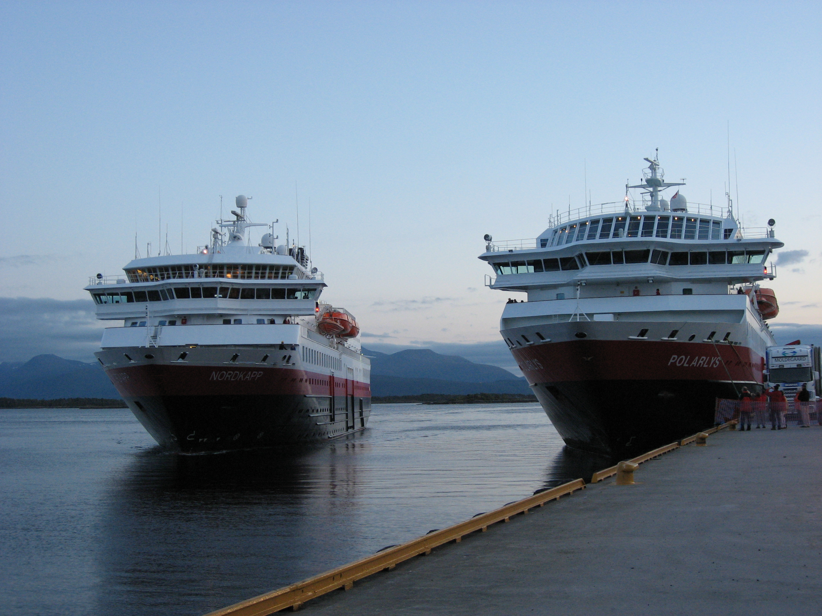 Norwegian coastal steamers (Hurtigruten) MS Nordkapp and MS Polarlys meets in Molde harbour. Polarlys IMO Number: 9107996 MMSI Number: 259322000 Callsign: LHYG Length: 123 m Beam: 18 m